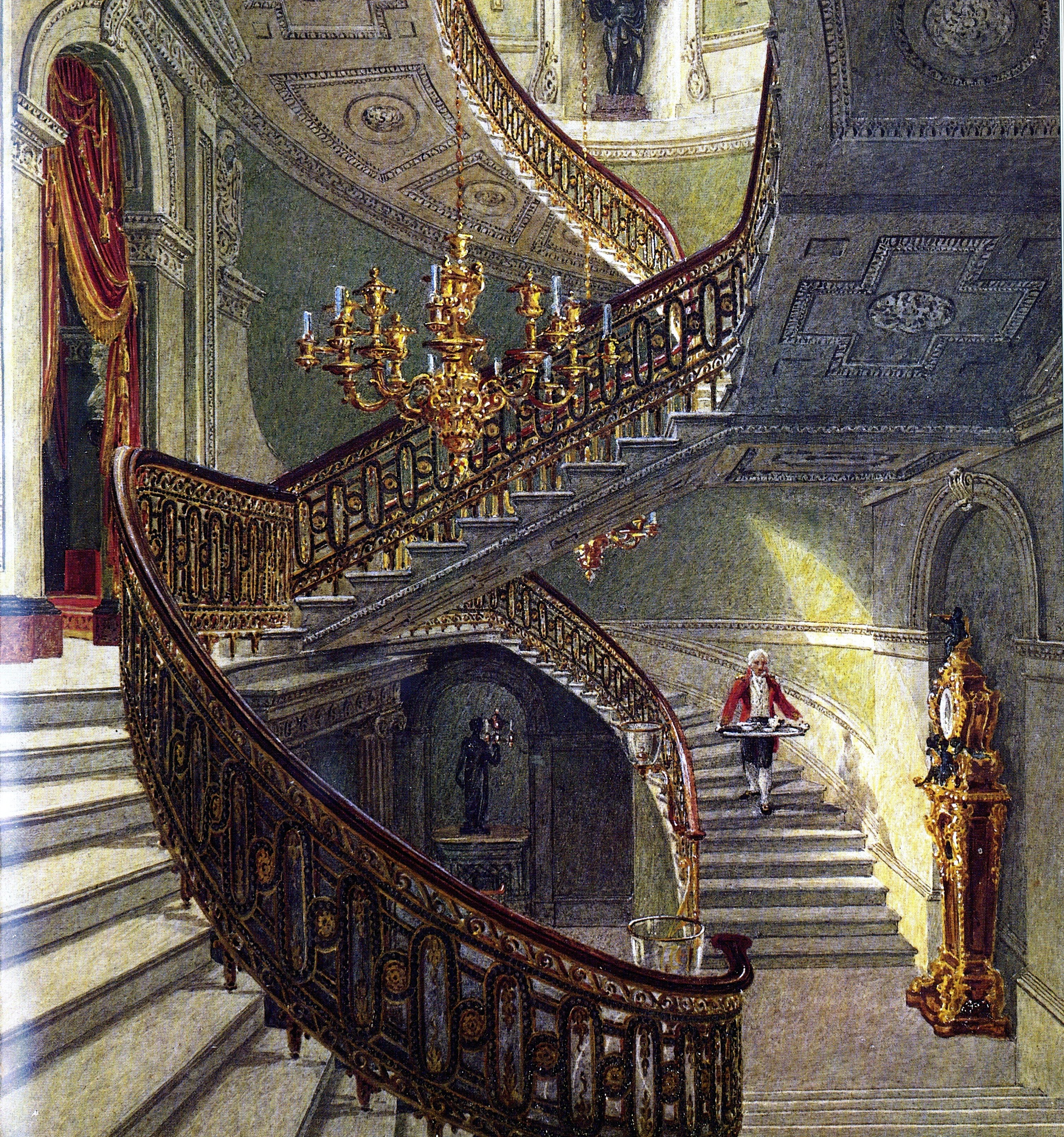 The grand staircase at Carlton House in London from Pyne's Royal Residences (1819), plate 81. William Henry Pyne (1769-1843)